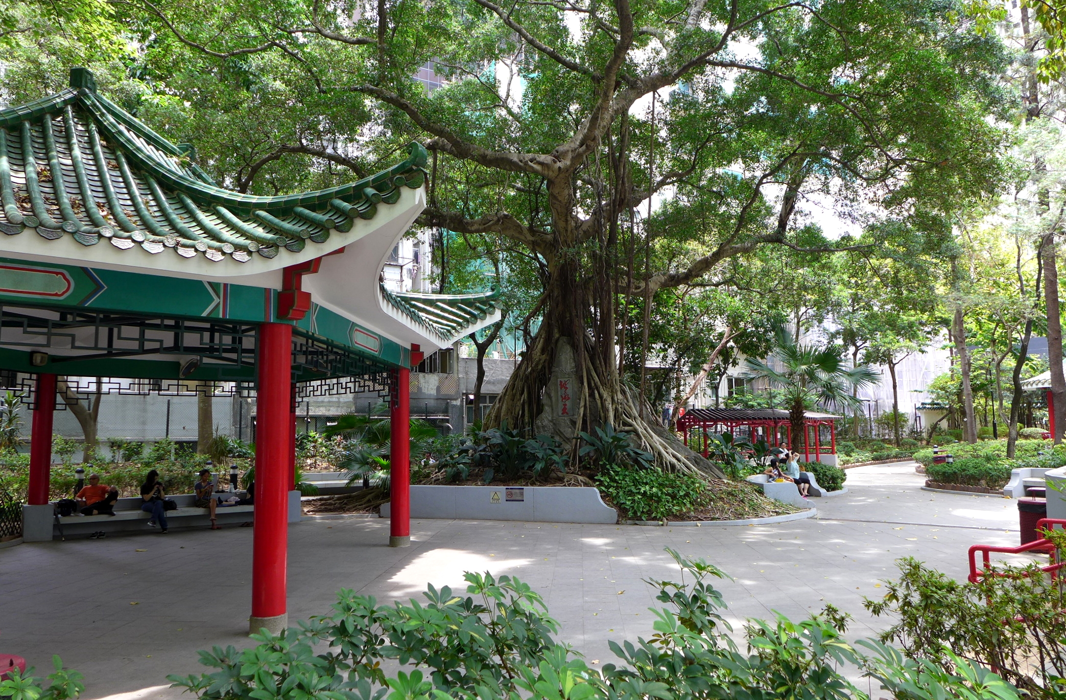 Hollywood Road Park Big Tree